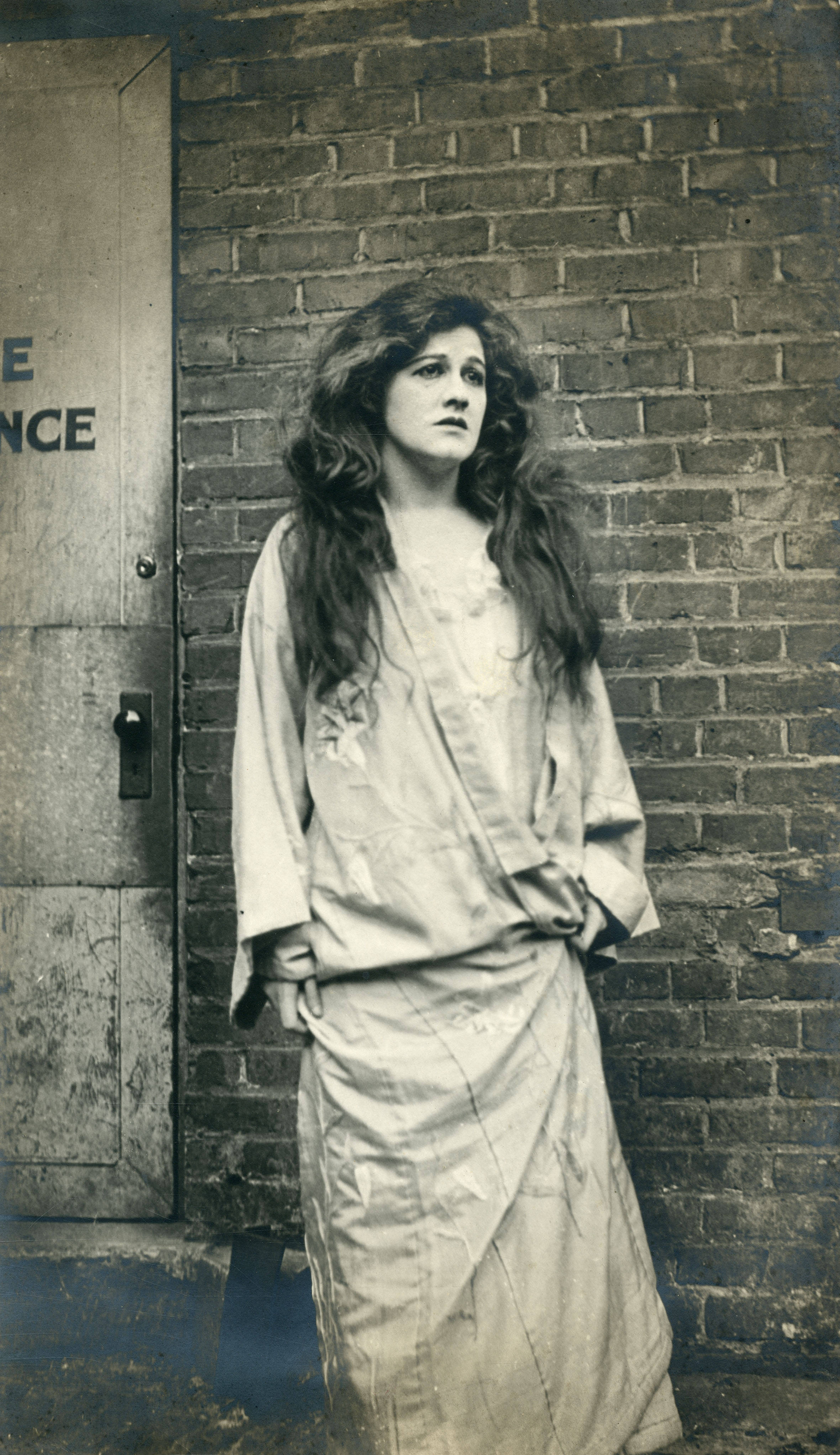 Phoebe Hunt, from the American drama film The Grim Comedian (1921). Subjects: actresses